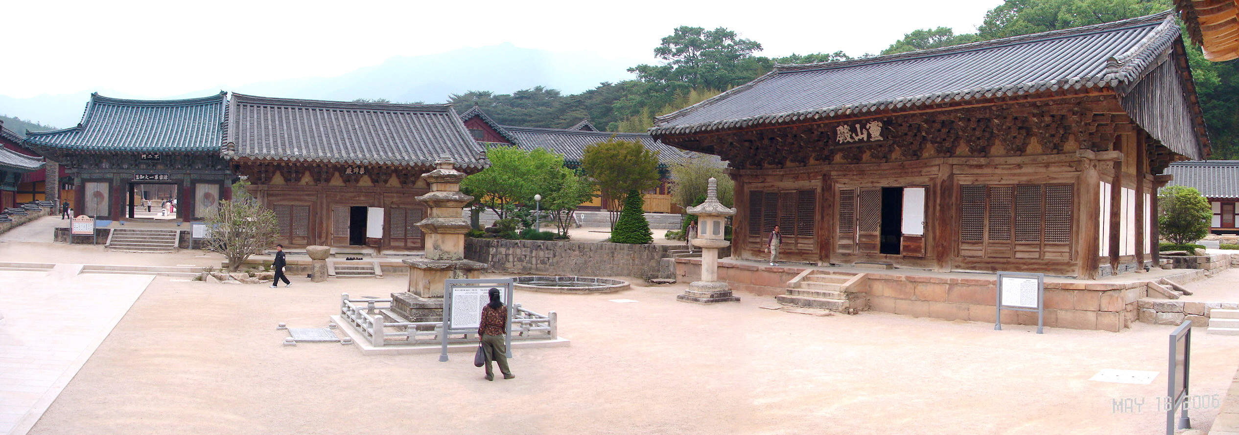 Tongdosa grounds